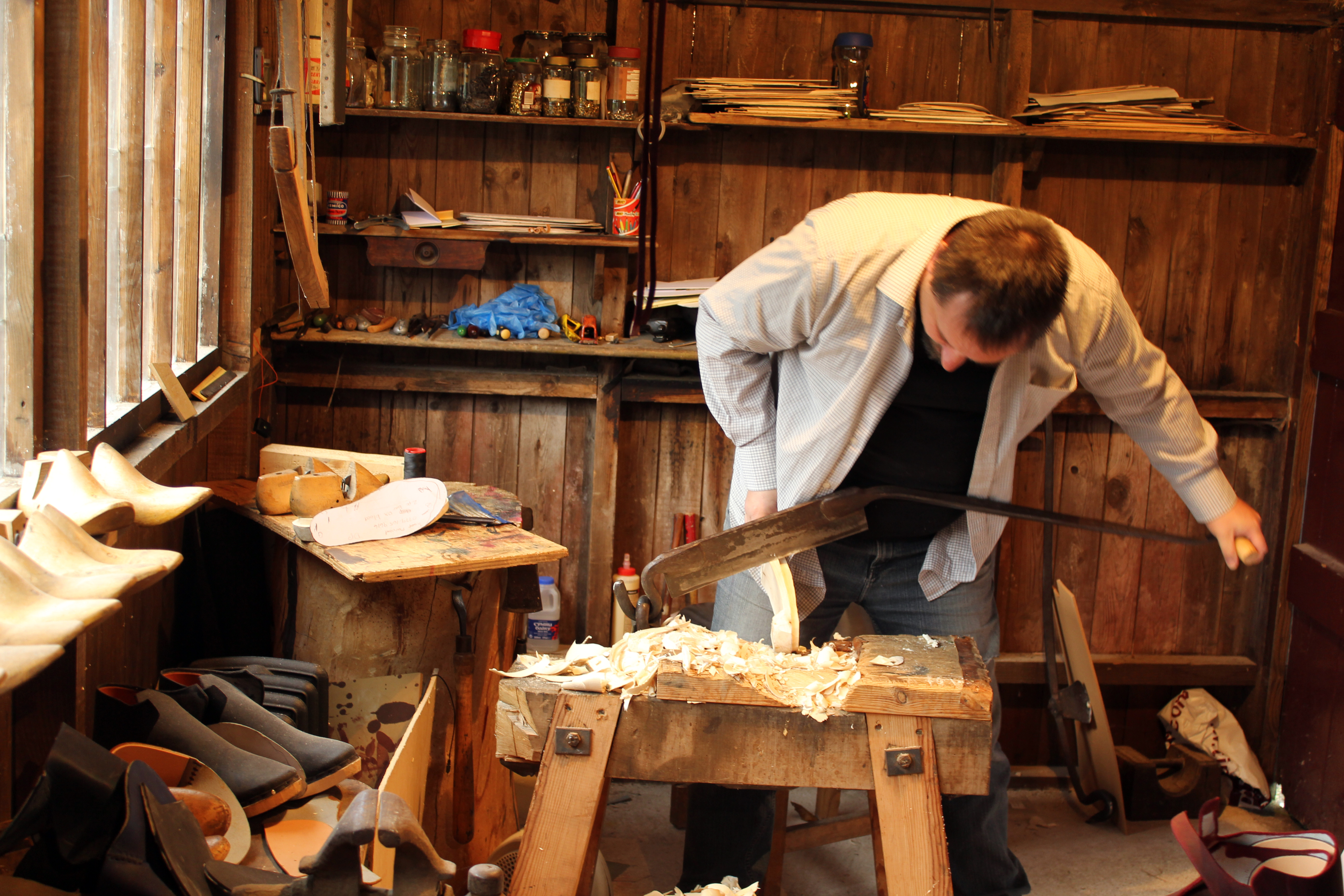 Clogmaker's workshop at the St Fagans museum in Wales. Resident clogmaker Geraint Parfitt demonstrates the craft.